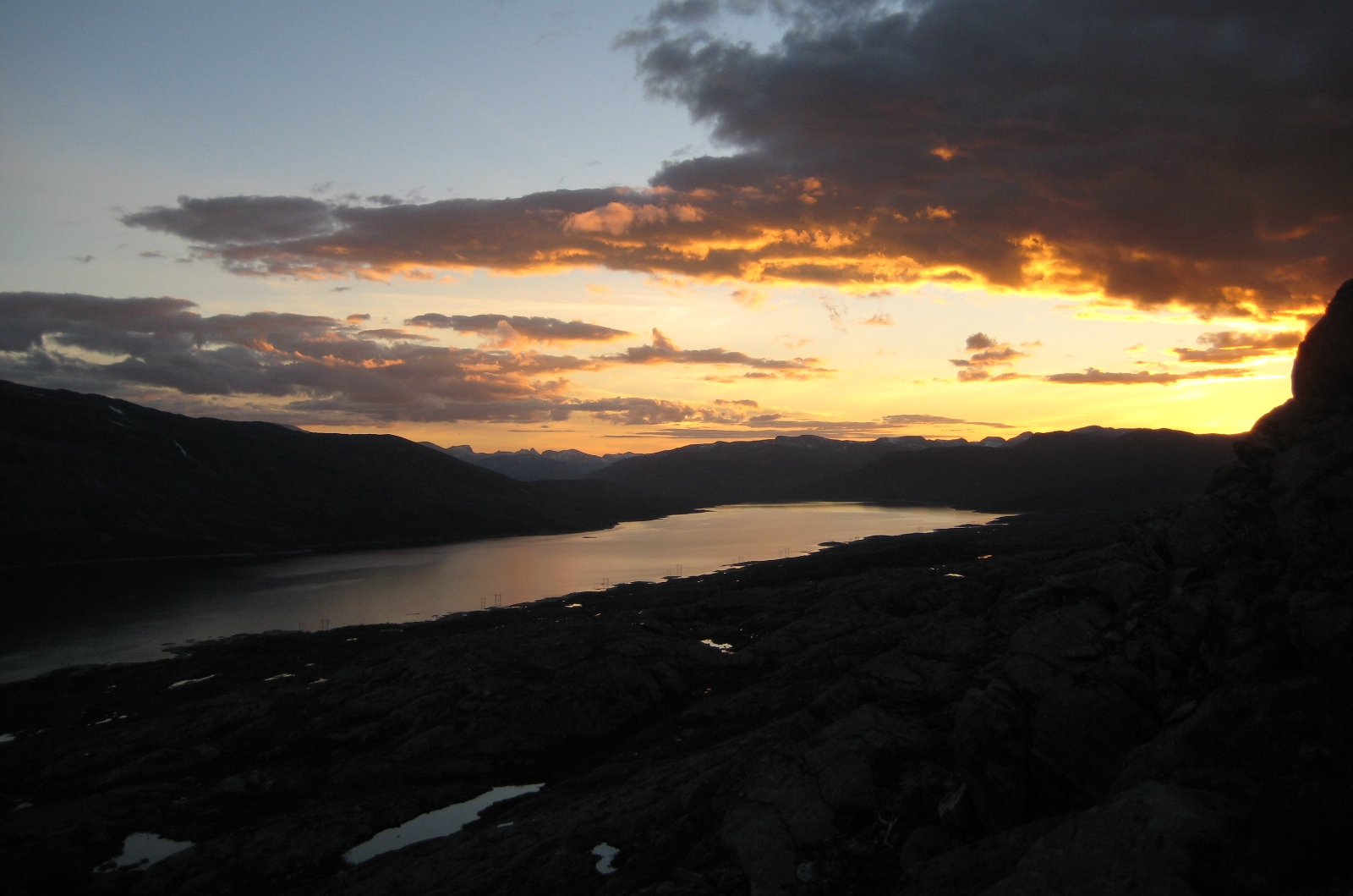 Sunset over Aursjøen